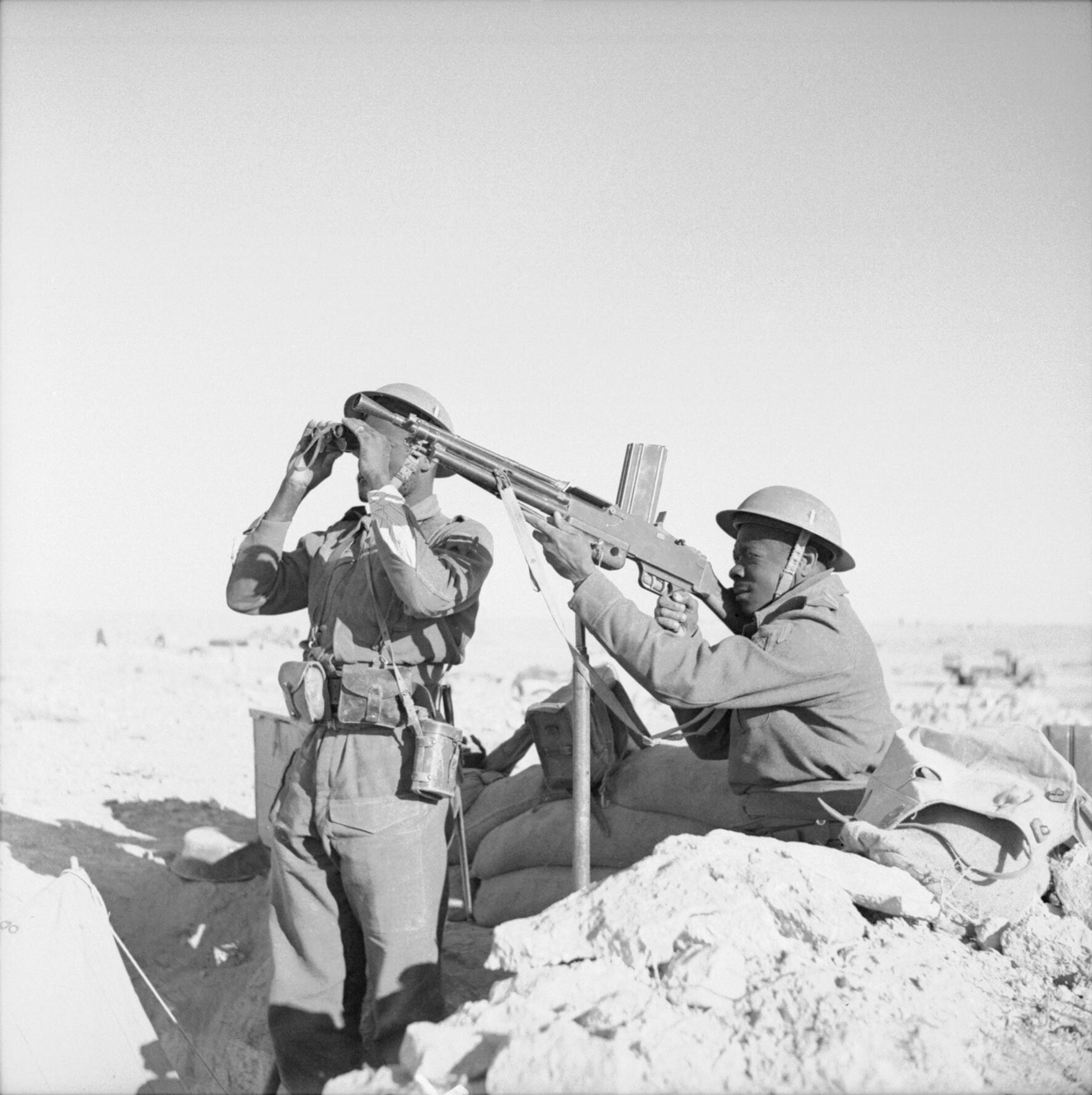 Allied Forces in North Africa 1942 French Colonial troops man a machine gun post in a forward part of the line, 16 February 1942.